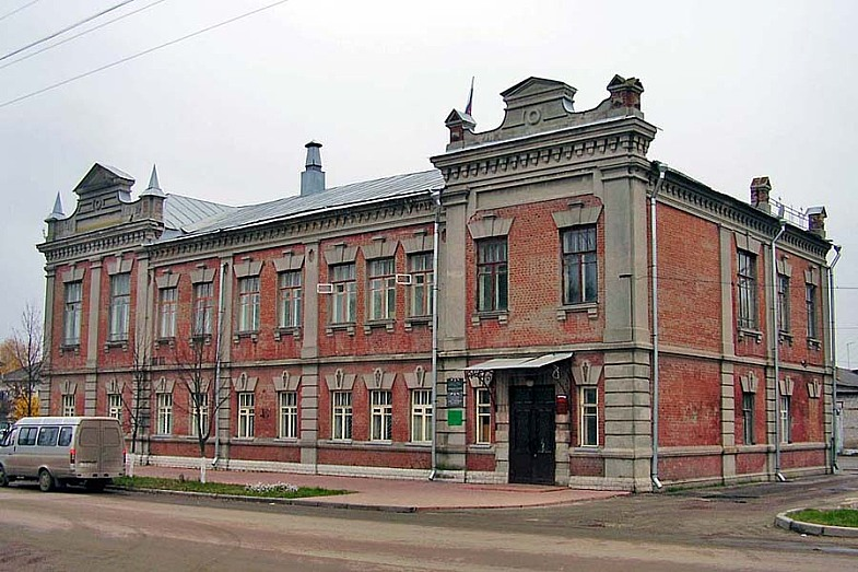 Early 20th century brick building in Sudogda. Early 20th century brick building in Sudogda, Vladimir Oblast, Russia, Sudogda.